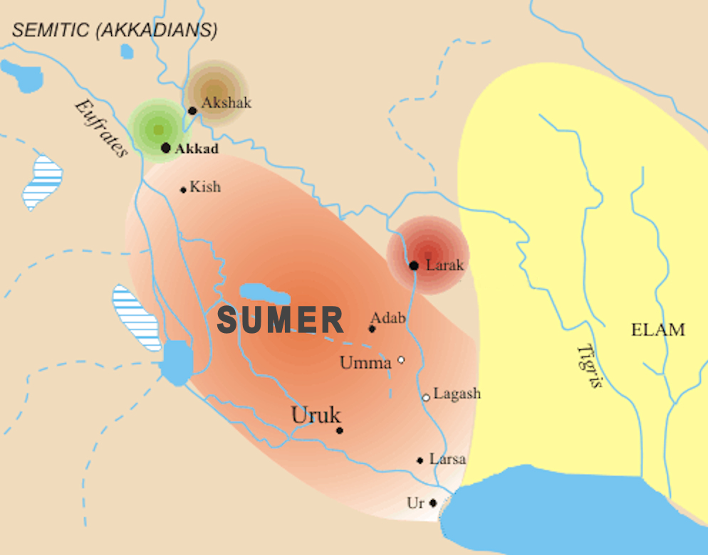 Sumer (map)